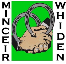 Minceirs Whiden Ireland, the all-Traveller Forum Launched on 2nd of October 2017 Mincéirs Whiden Society in UCG works to provide a safe and welcoming environment for Traveller students on campus (Minceirs Whiden is Cant for Travellers talking)